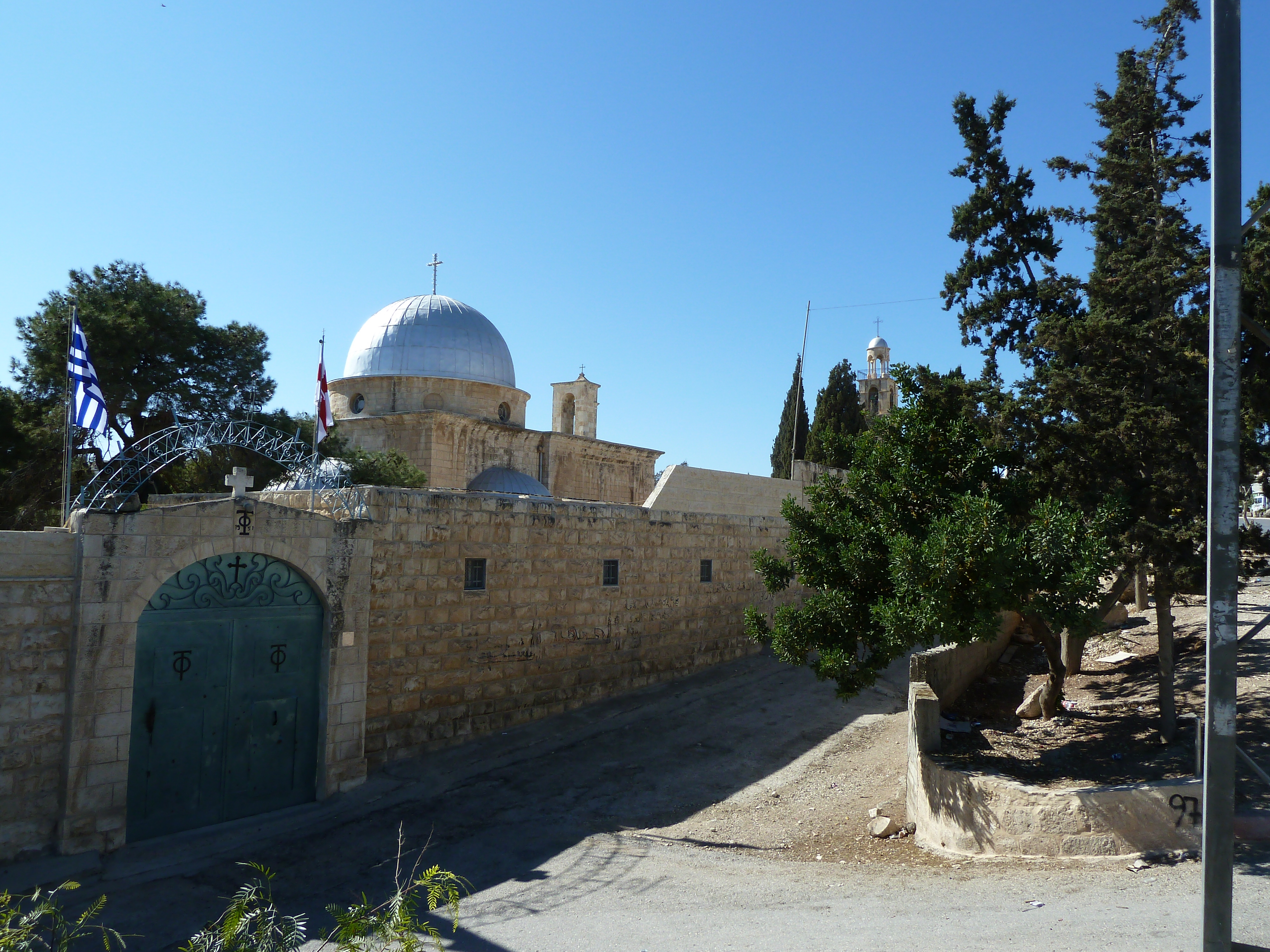 Bethany Stone church with silver dome